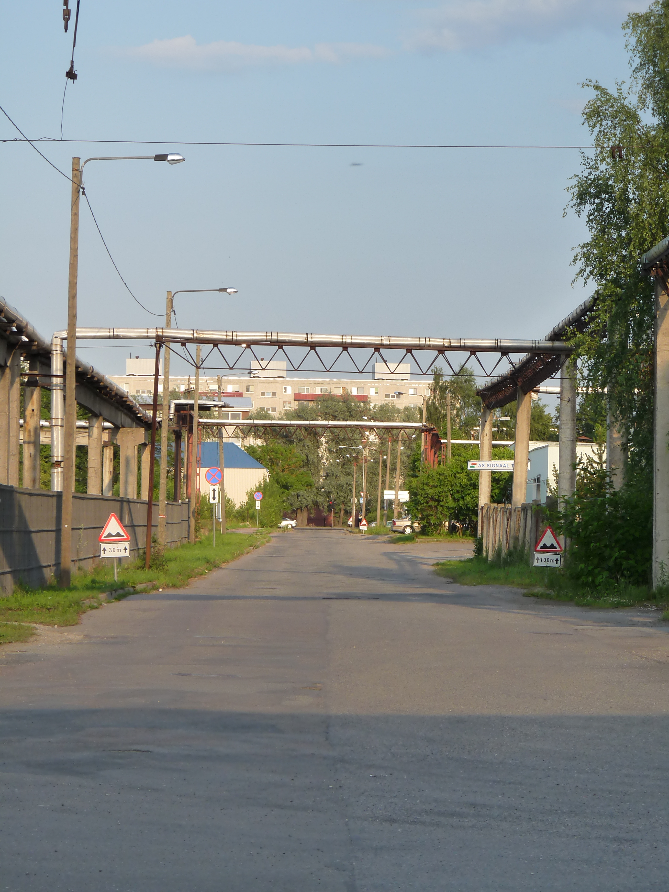 Liimi street in Tallinn, Estonia